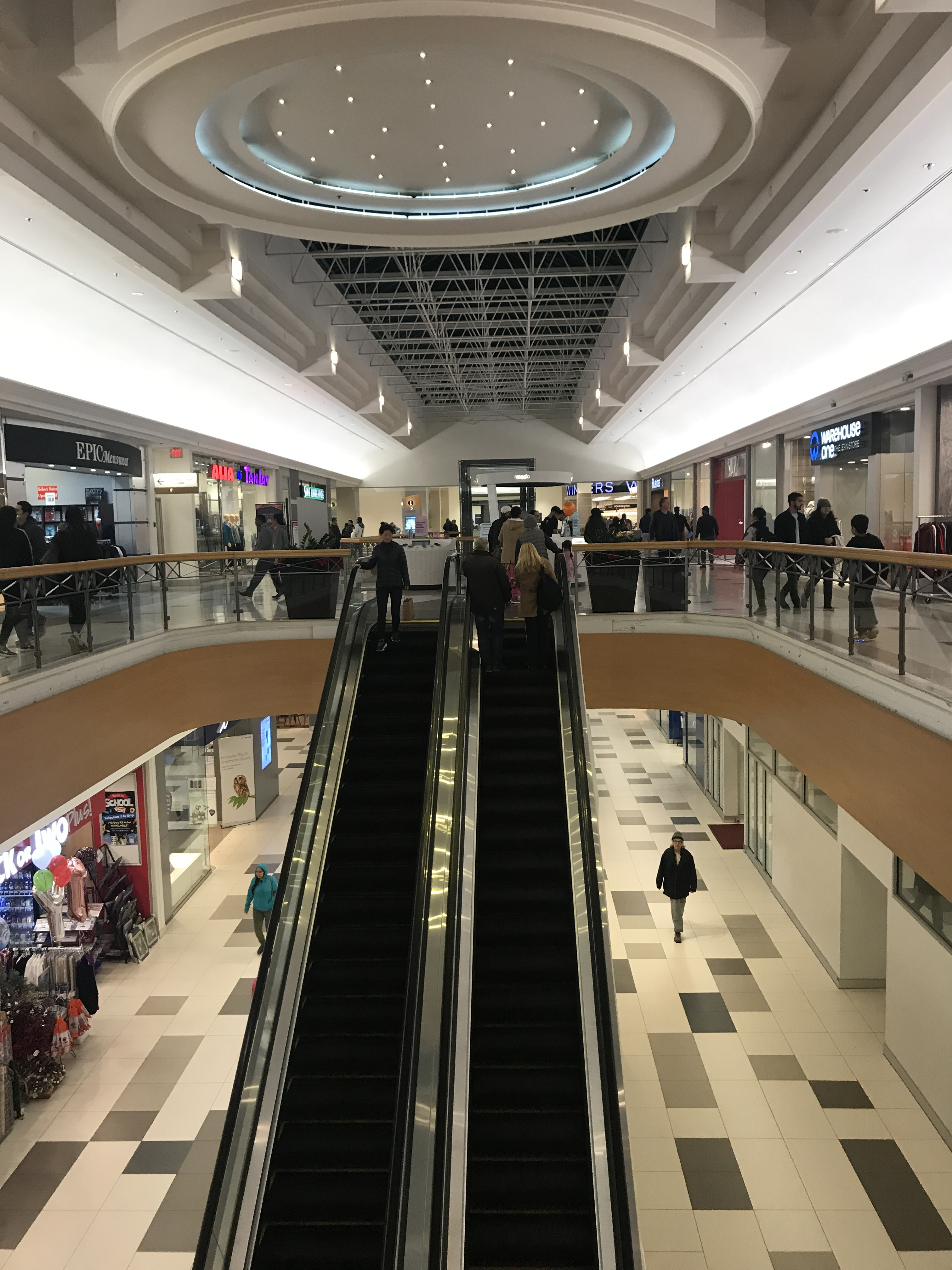 Inside of central city shopping centre